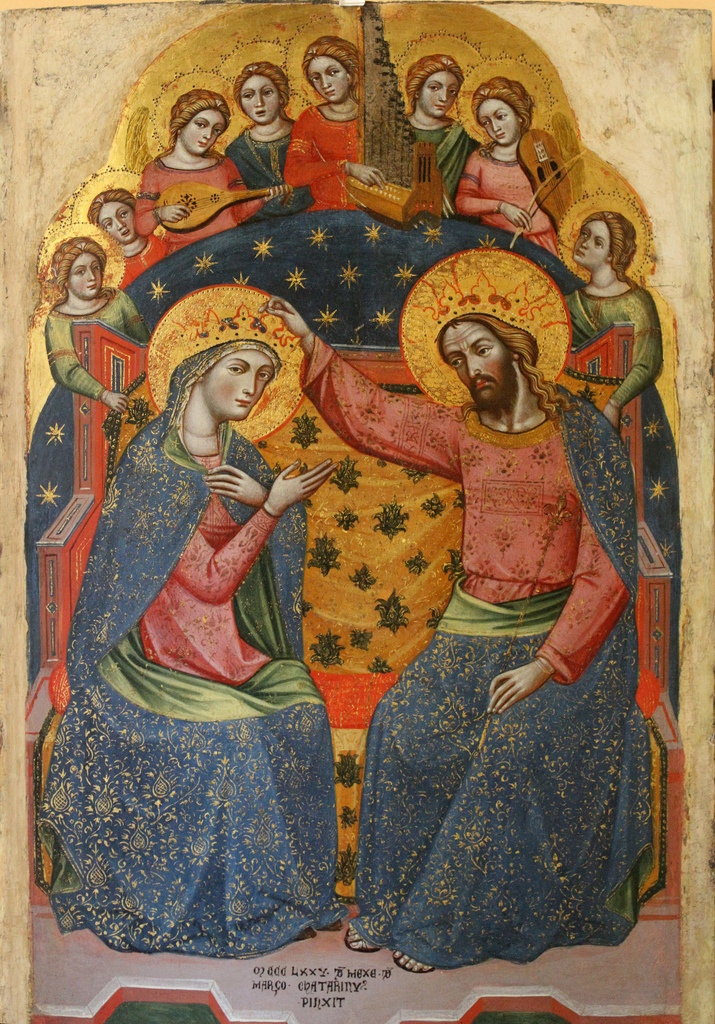 Coronation of the Virgin.